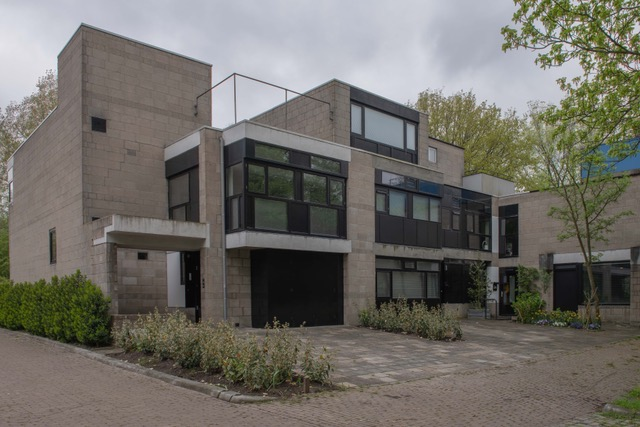 Diagoonhouses: experimental houses of Herman Hertzberger in Delft, The Netherlands, 1968-1971.